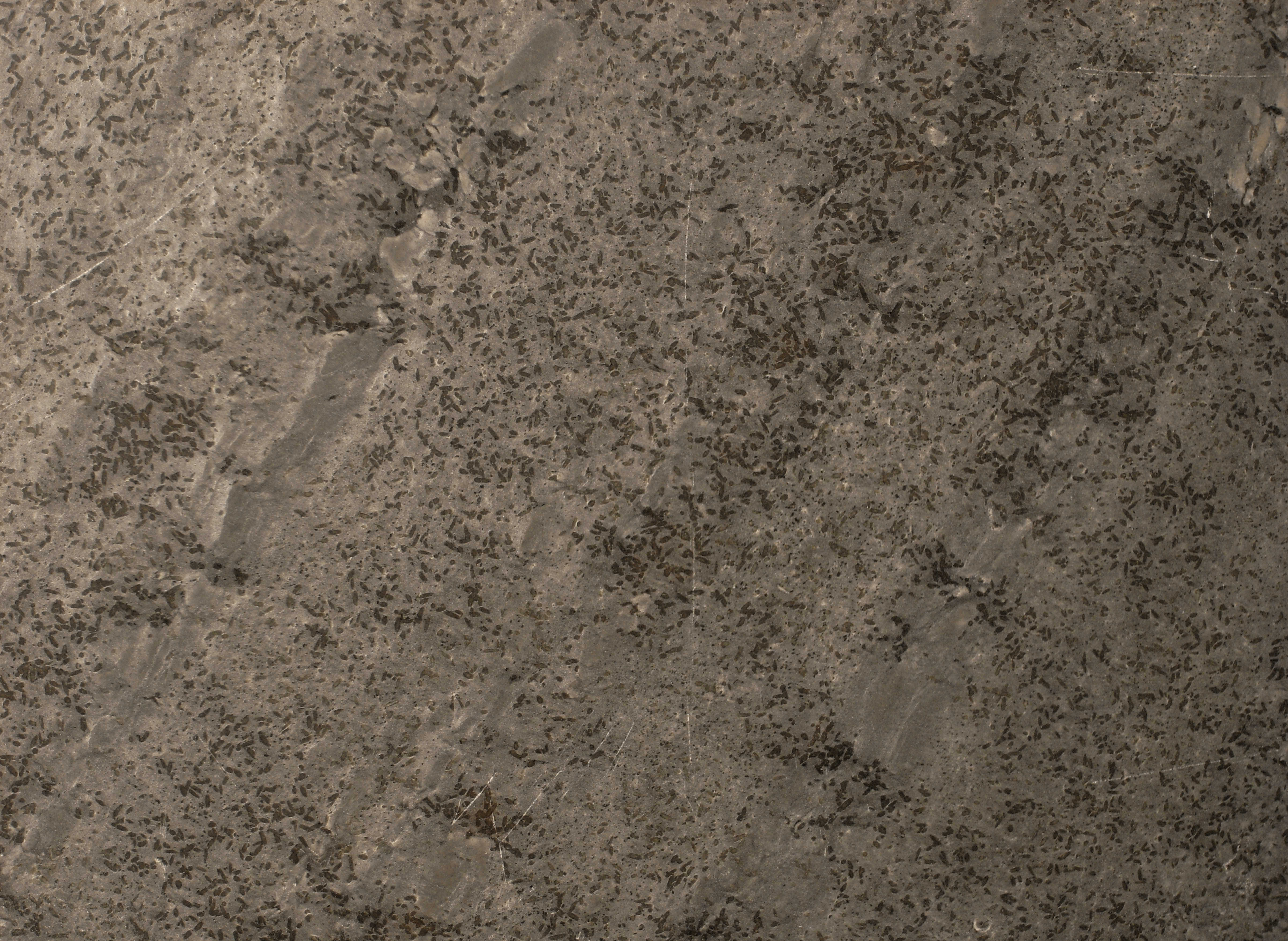 fruchtschiefer Theuma (slate) (Theuma, Saxony, Germany)